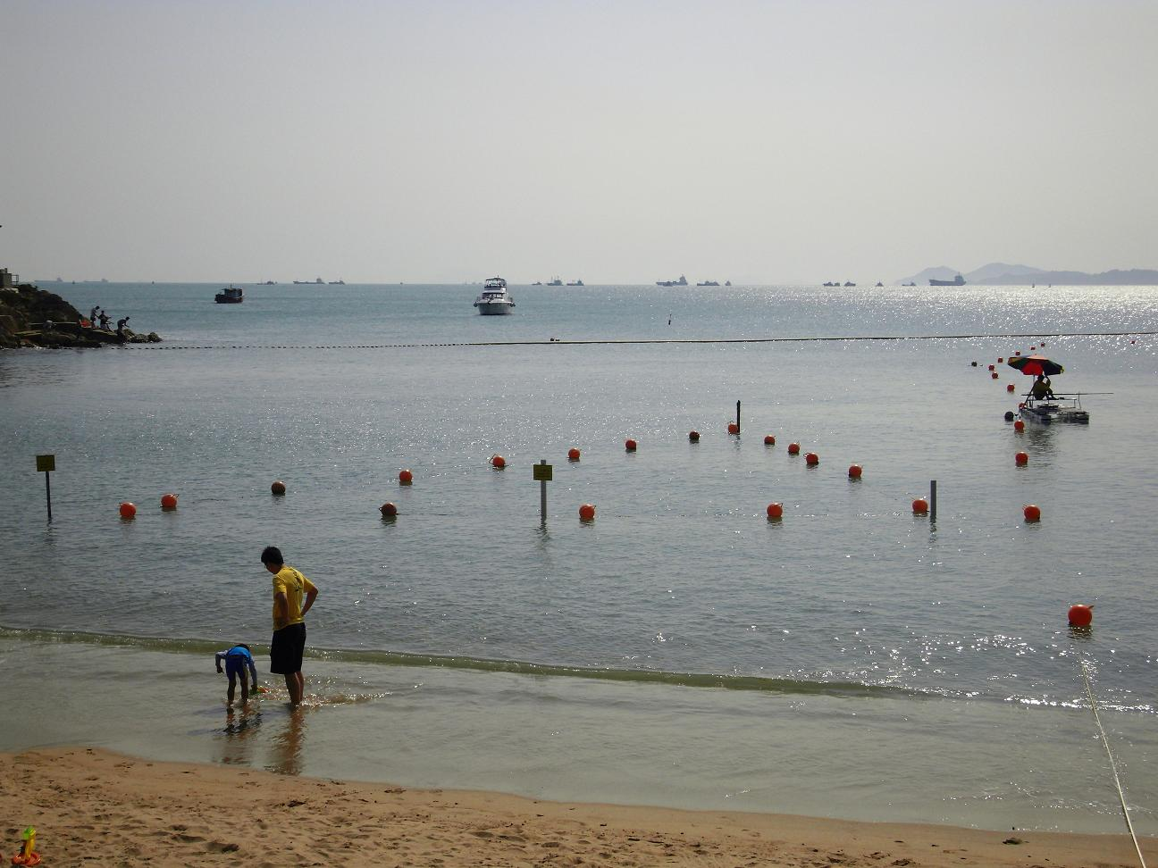 Lo So Sing Beach, Lamma Island, Hong Kong